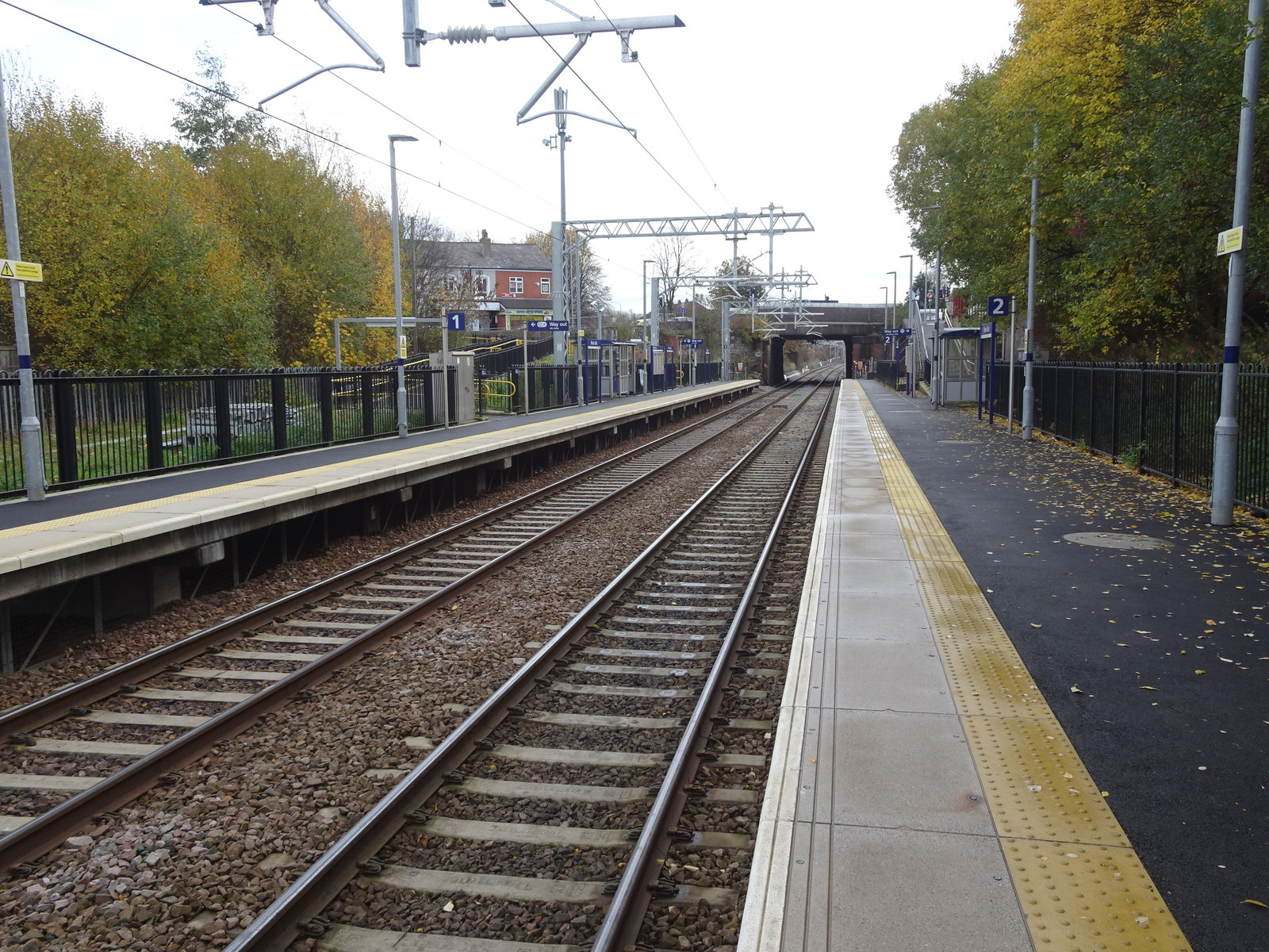 Moses Gate railway station, Greater ManchesterOpened in 1838 by the Manchester & Bolton railway, later part of the Lancashire & Yorkshire Railway. View south east towards Farnworth and Manchester.